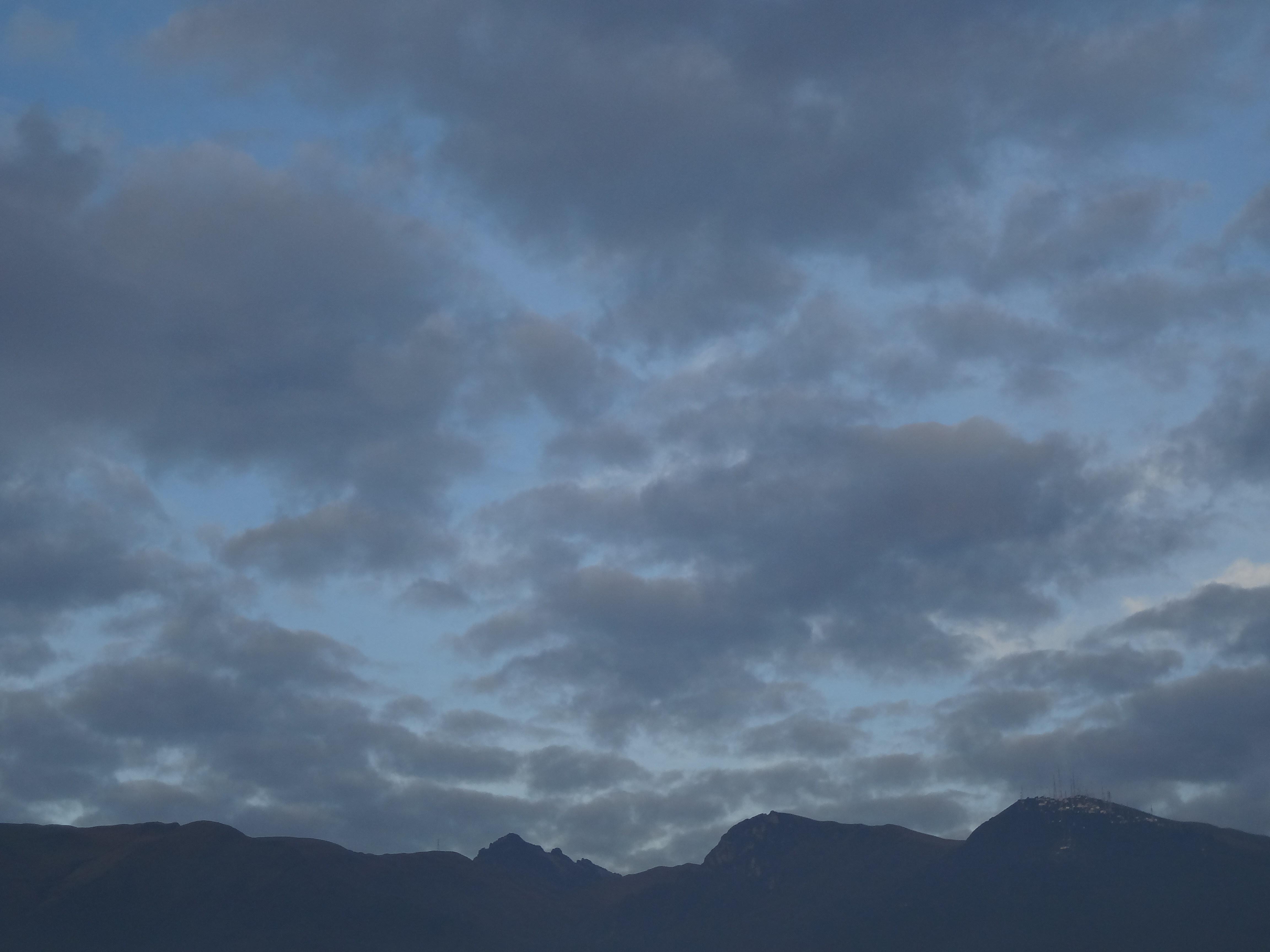 El Pichincha es un volcán en Ecuador . La capital ecuatoriana, Quito, se encuentra en sus faldas. Presenta varias cumbres, que en la siguiente lista están mencionadas desde la geológicamente más vieja al noreste hasta la más nueva al suroeste. Algunos de los nombres de las cumbres fueron derivados del quichua. Loma de las Antenas. Cúndur Guachana (Nido de Cóndores en quichua) Rucu Pichincha (rucu = viejo en quichua) Cruz Loma Padre Encantado (también llamado Fraile Encantado) Guagua Pichincha (guagua = niño en quichua) El Guagua Pichincha tiene dos grandes cráteres, uno dentro del otro, que son resultado de sus erupciones. Al sur del Pichincha, aledaña a la zona sur de Quito, también hay una loma volcánica llamada Ungúí. El Guagua Pichincha ha erupcionado en 1534, 1539, 1566, 1575, 1588, 1660 y 1662, cuando la ciudad fue cubierta por 30 centímetros de ceniza. Casi dos siglos habían transcurrido sin que haya torrentes de lava y sismos, y algunos geólogos creyeron que era ya un volcán inactivo. Pero el 22 de marzo de 1859 erupcionó de nuevo. La ciudad de Quito quedó entonces casi destruida. Asimismo, en octubre de 1999, una erupción mayor del volcán dejó la capital cubierta de ceniza. Sin embargo, como el cráter del Guagua Pichincha está abierto hacia el oeste, su lava bastante viscosa fluye en esa dirección. El científico berlinés Alexander von Humboldt ascendió al Pichincha en 1802, durante su viaje de investigación por la América del Sur.